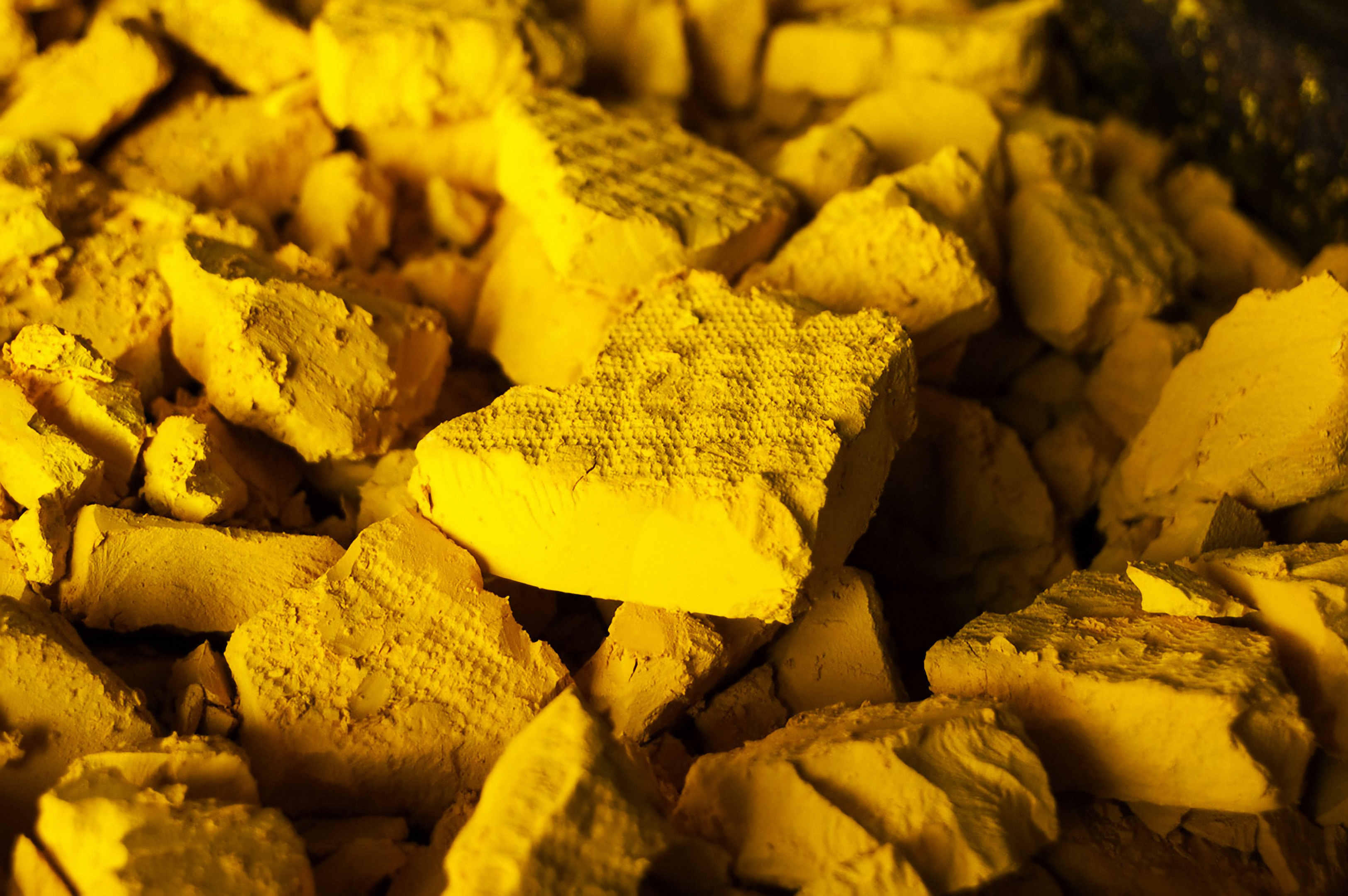 A photo of yellow cake uranium, a solid form of uranium oxide produced from uranium ore. Yellow cake must be processed further before it is made into nuclear fuel. Courtesy of Energy Fuels Inc. Visit the Nuclear Regulatory Commission's website at To comment on this photo go to Photo Usage Guidelines: Privacy Policy